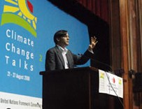 Photo from UNFCCC Climate Negotiations, Accra, Ghana